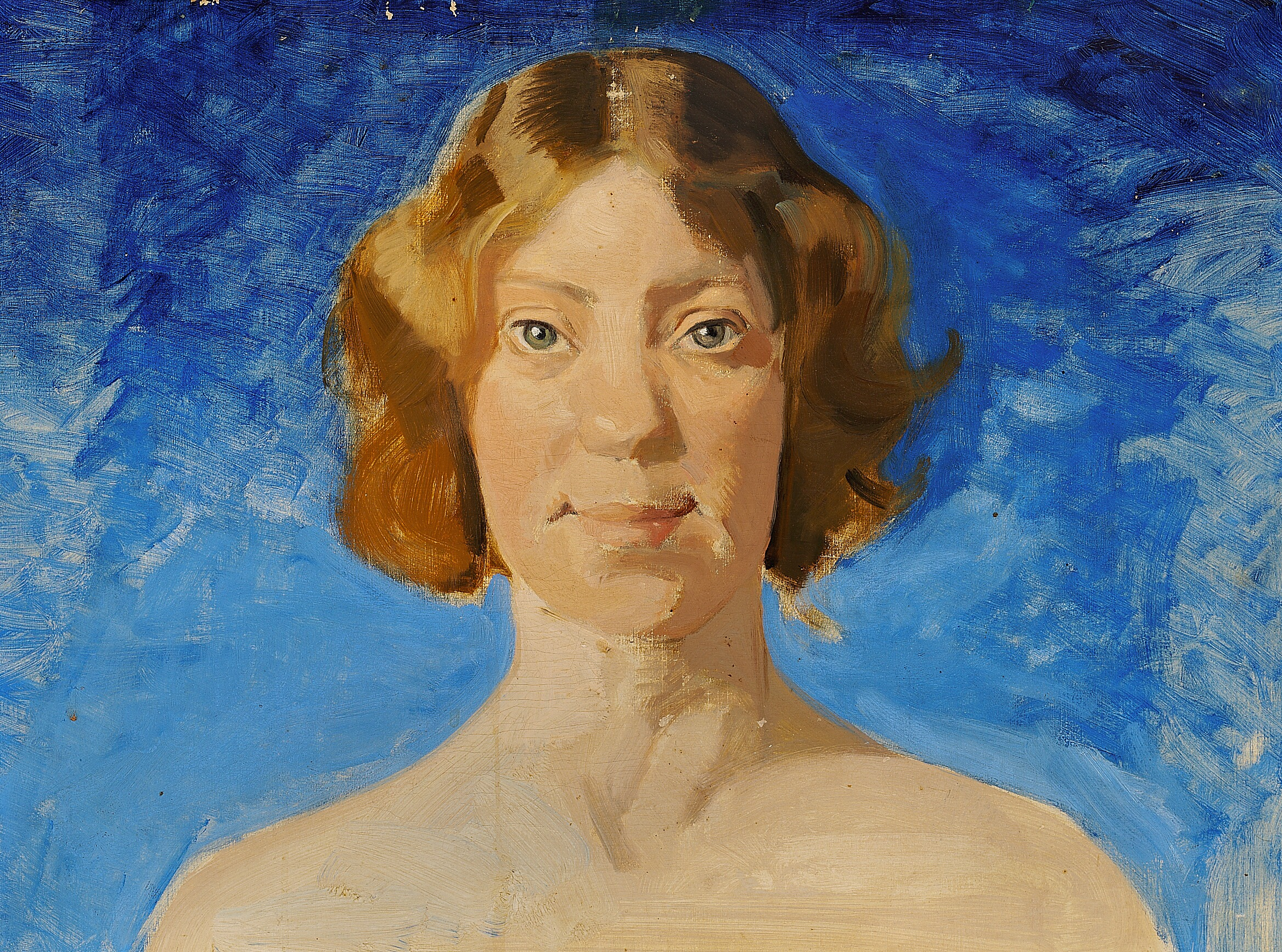 Bertha Dorph (née Green) was a pupil of Harald Slott-Møller, and the painting was probably made around 1895.